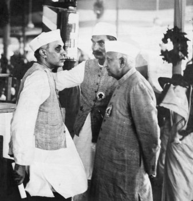 Jawaharlal Nehru, Bhulabhai Desai and Rajendra Prasad engaged in conversation in the AICC pandal.